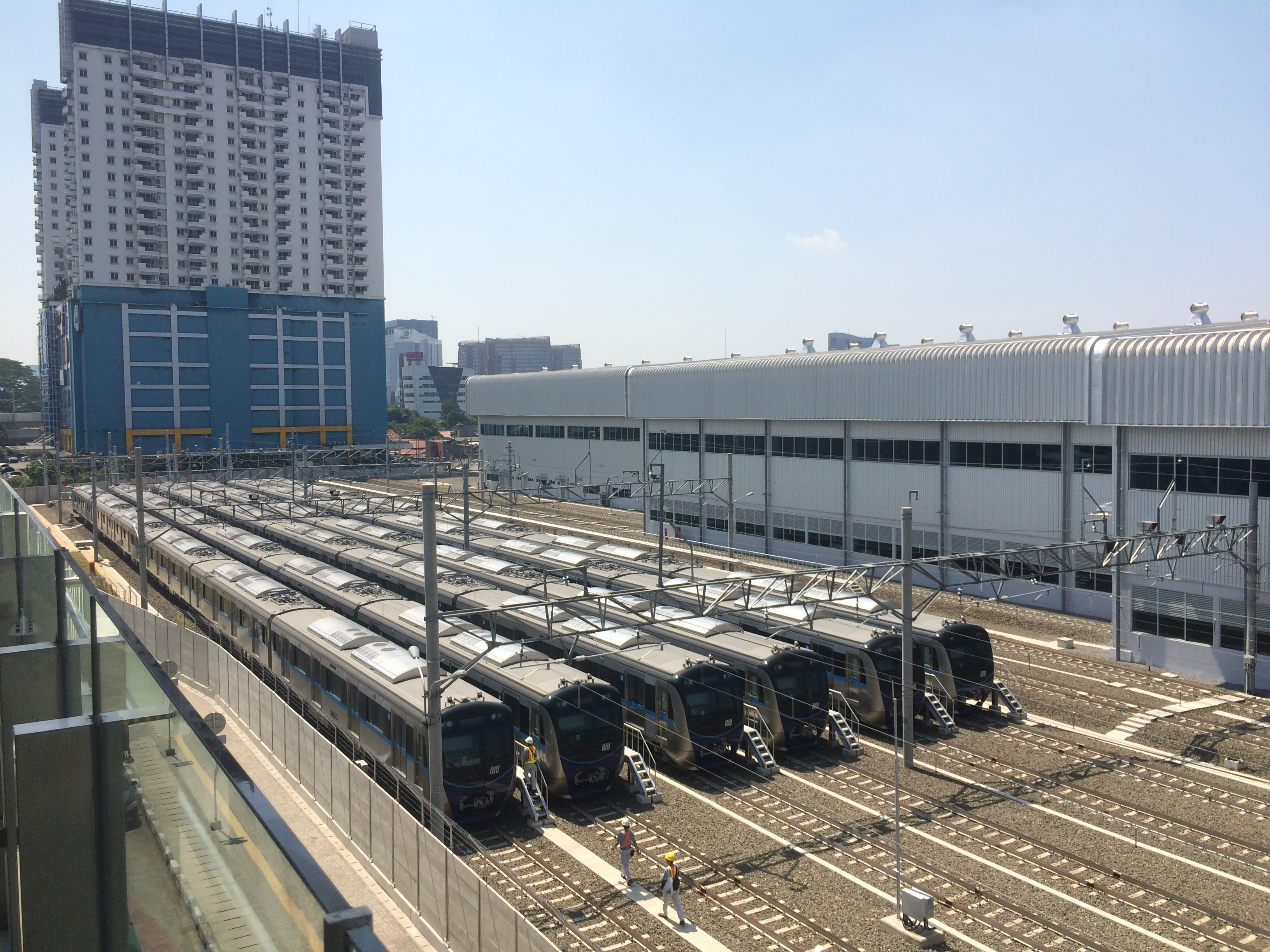 Sejumlah gerbong MRT terlihat sedang berada di Depo Stasiun Lebak Bulus Jakarta pada 15 Maret 2019.